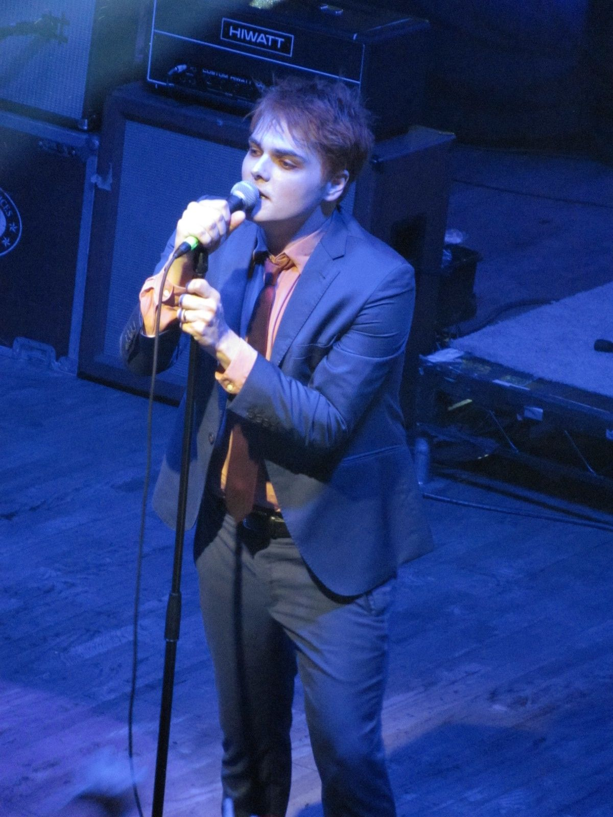 Gerard Way performing at the Webster Hall in New York, United States, on October 23rd, 2014.